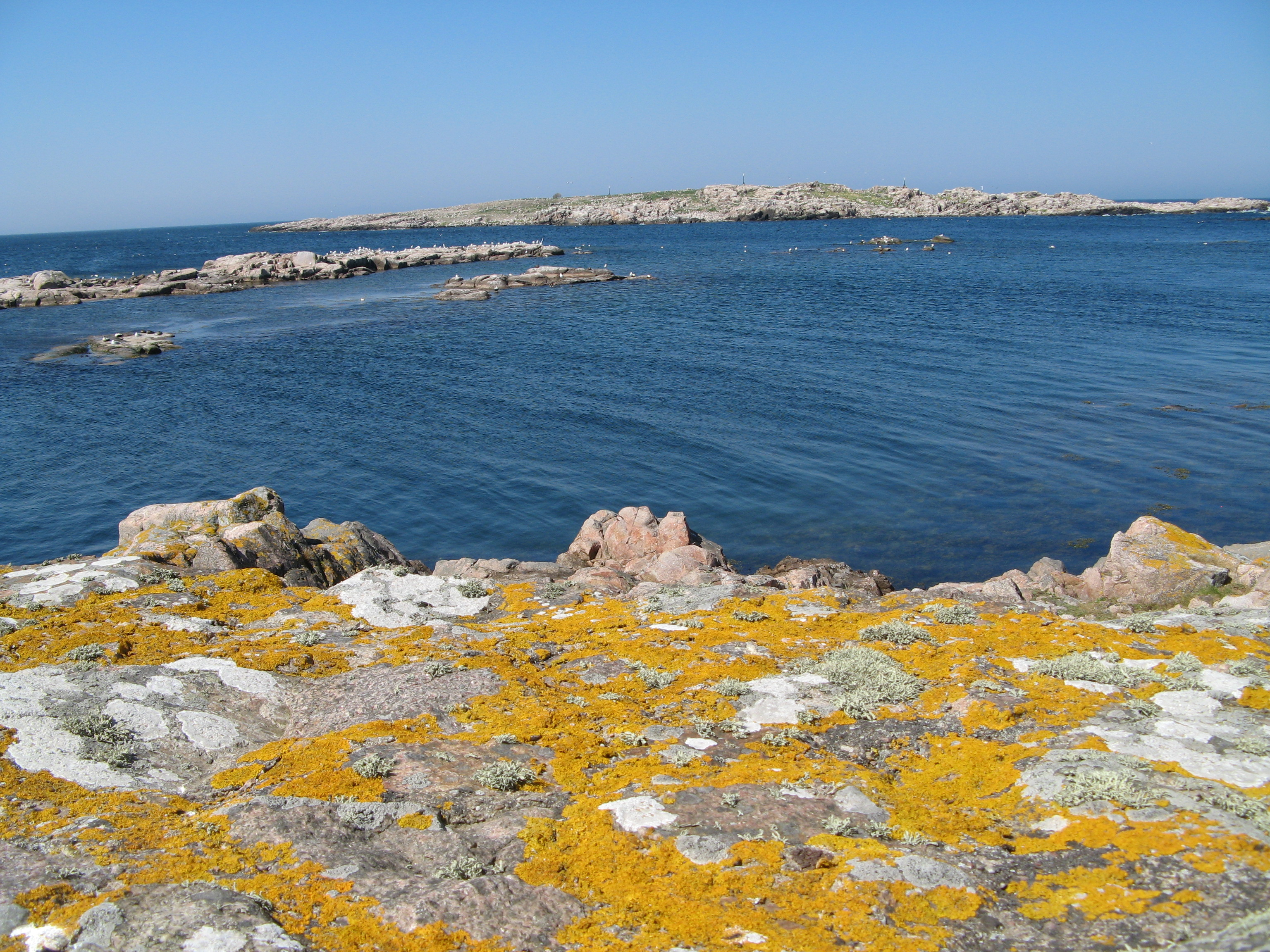 Frederiksø, Vesterskær, Græsholm